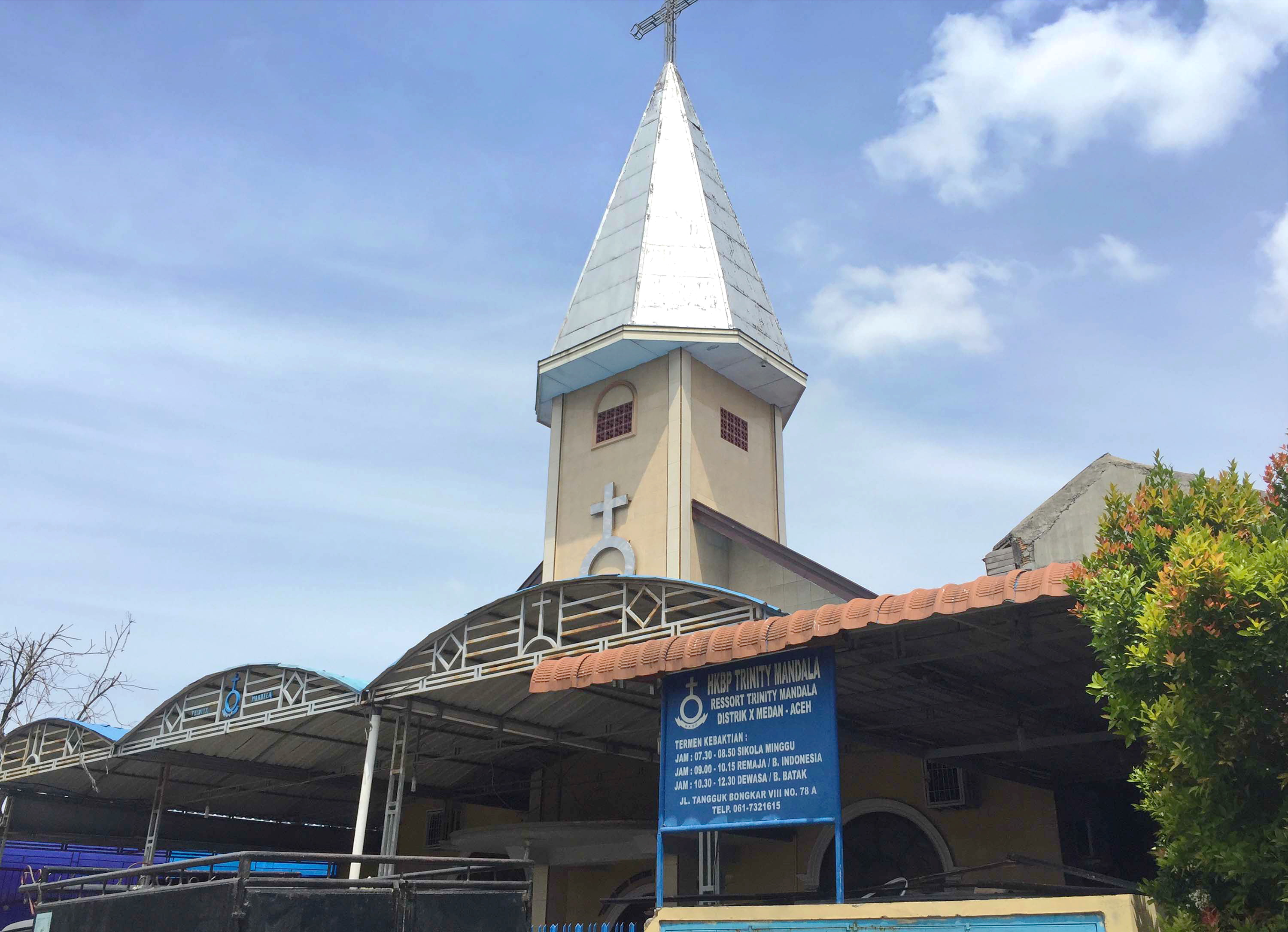 HKBP Trinity Mandala, Res. Trinity Mandala Church in Tegal Sari Mandala II, Medan Denai, Medan